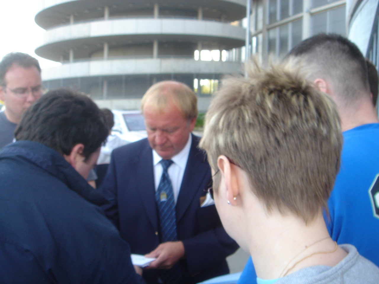 Francis Lee outside the City of Manchester Stadium